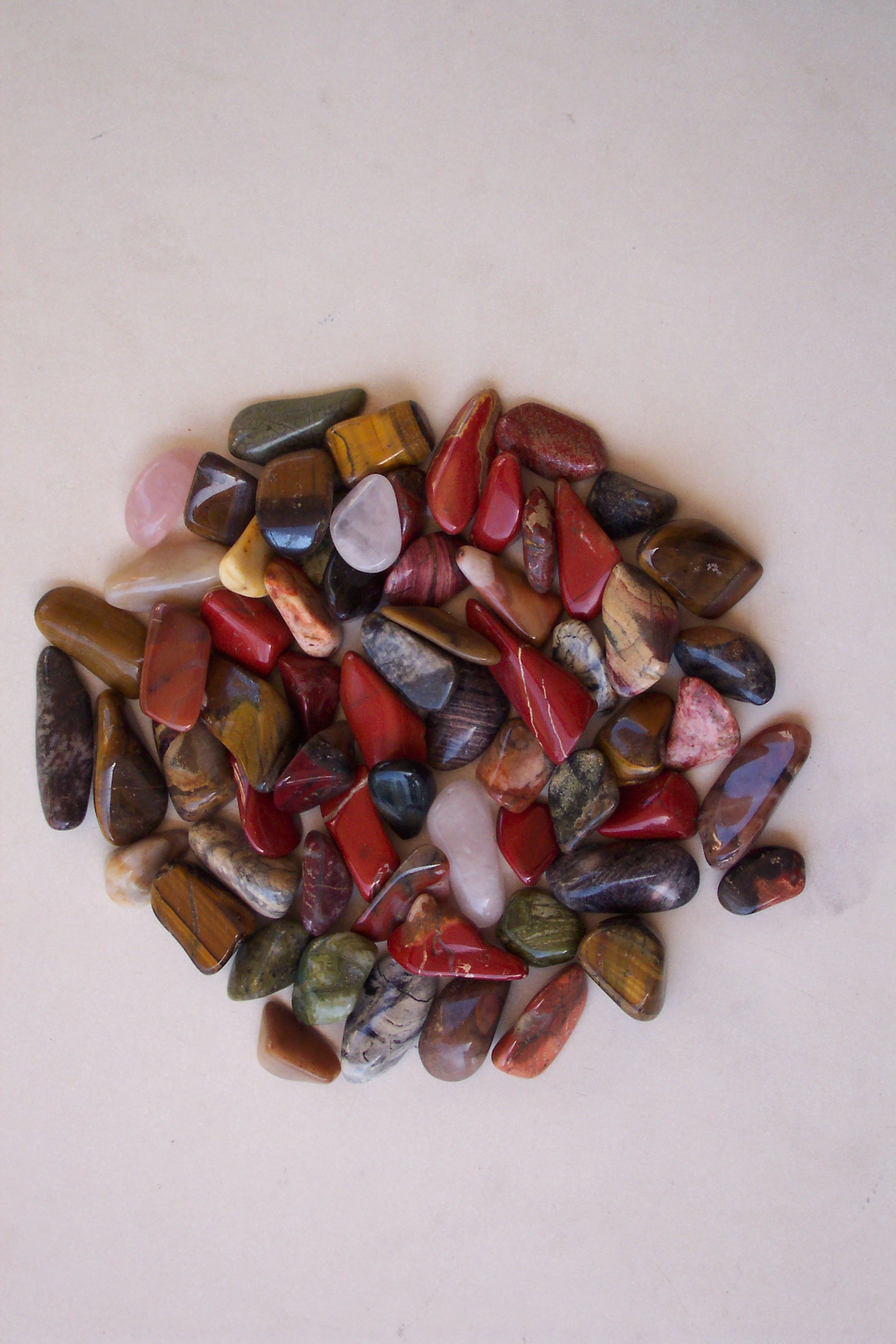 Stones in Israel